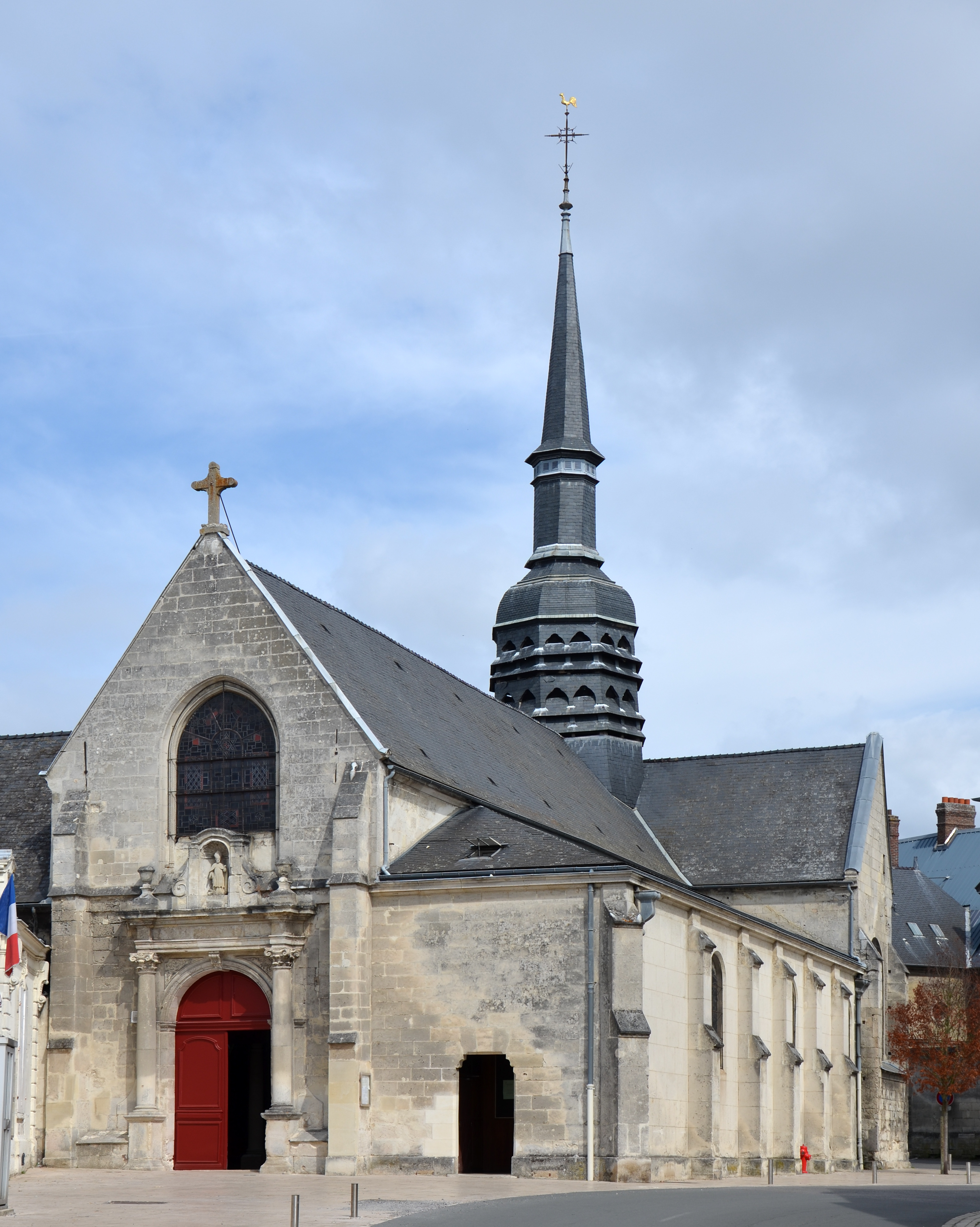 Church St-Nicolas in Villers-Cotterêts, Aisne, Picardie, France